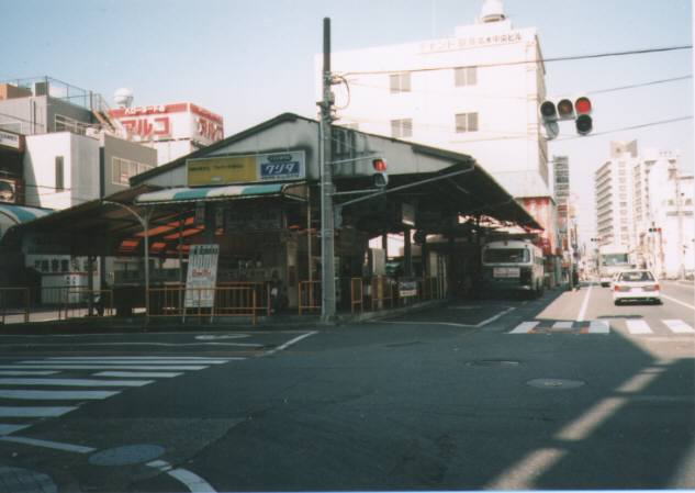 Yoshiwara Chuo Station Bus Terminal